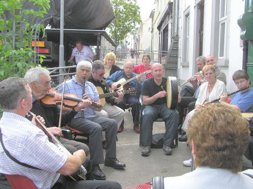 Dungloe music festival (1) A music session taking place in the main street - it is part of the annual events programme taking place in the town